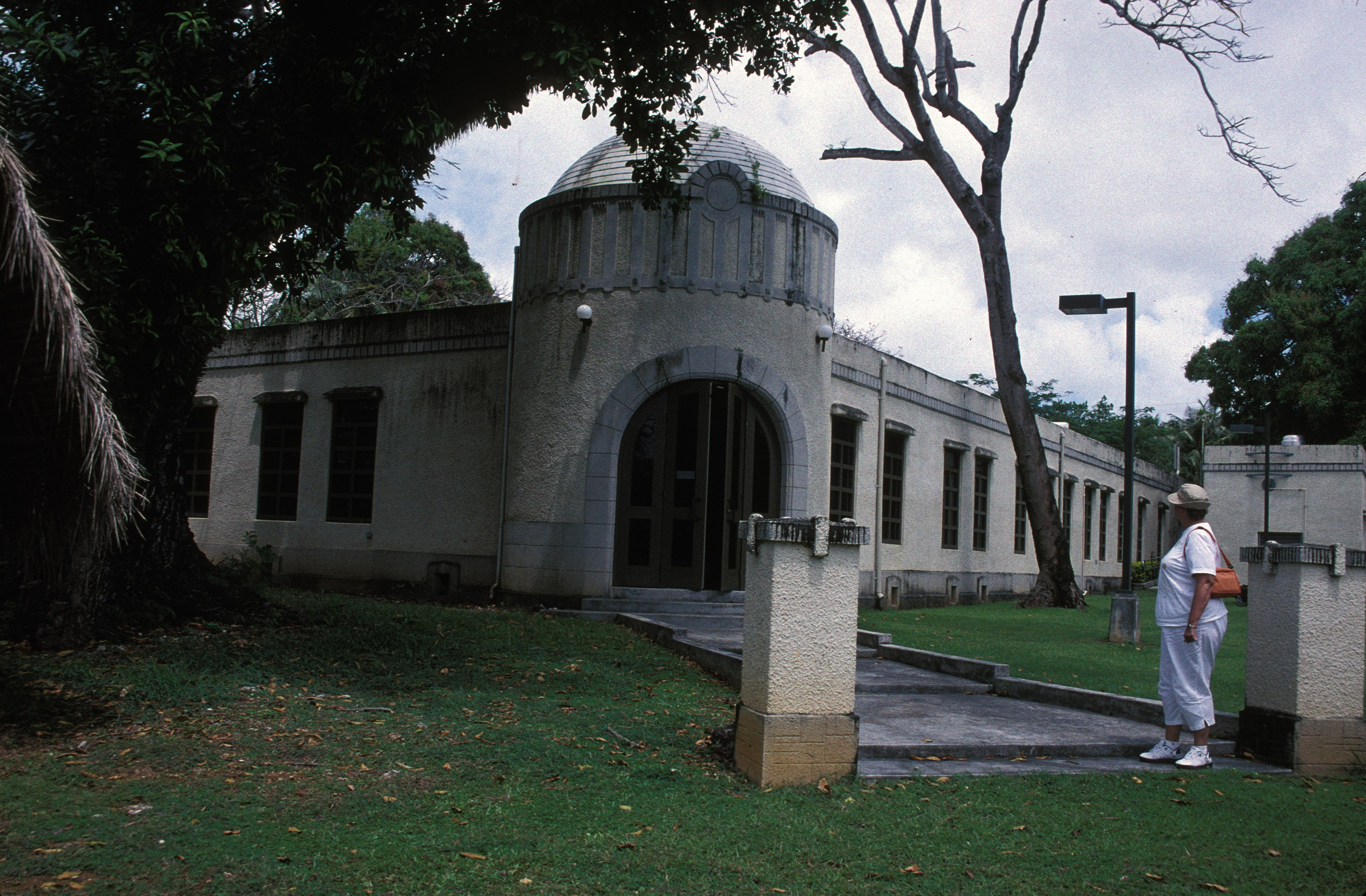 JAPANESE HOSPITAL WHICH HAS BEEN CONVERTED INTO THE CNMI MUSEUM; BUILT IN 1926